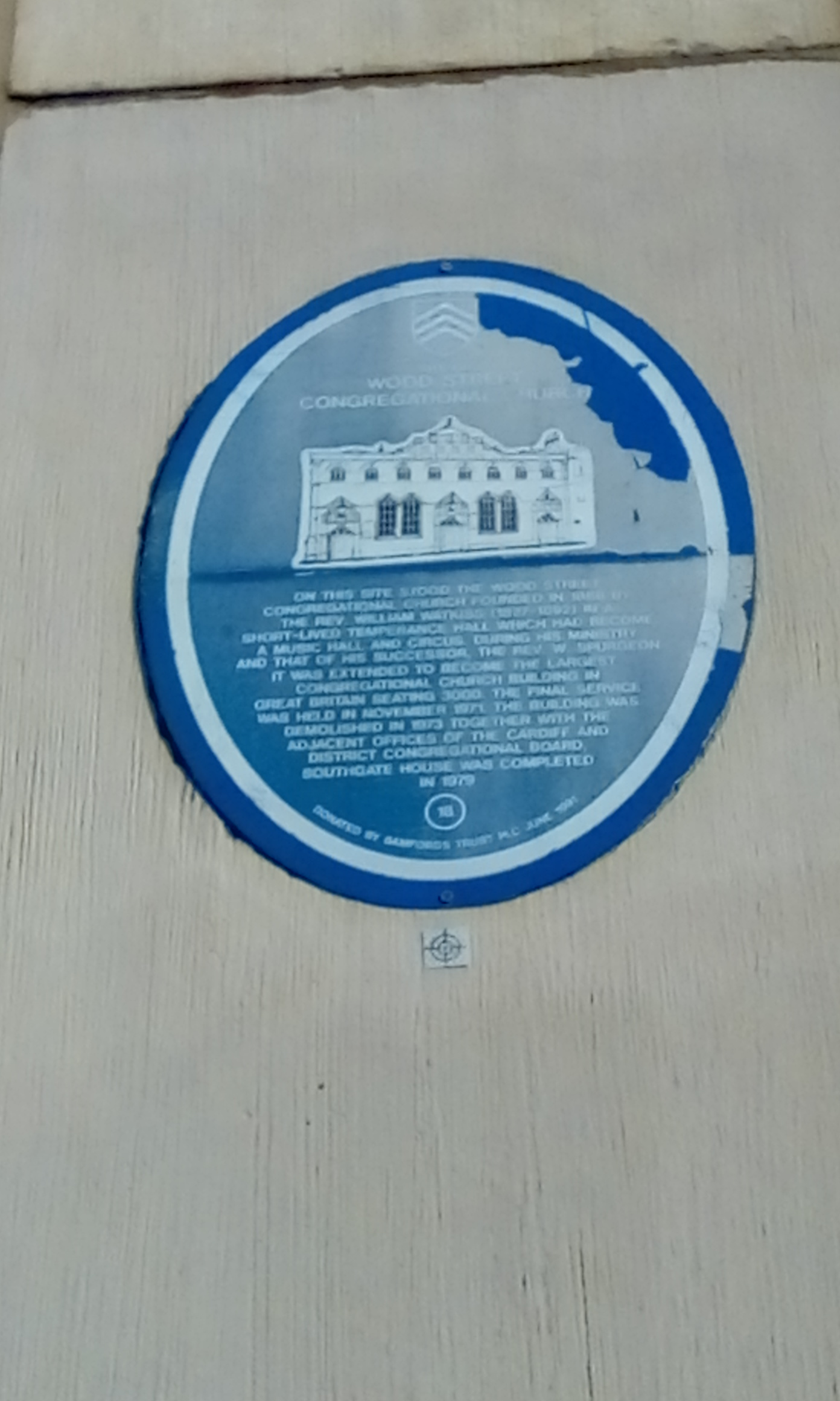 Plaque on office building in Wood Street, Cardiff, marking where the largest Nonconformist chapel in South Wales stood until 1973.